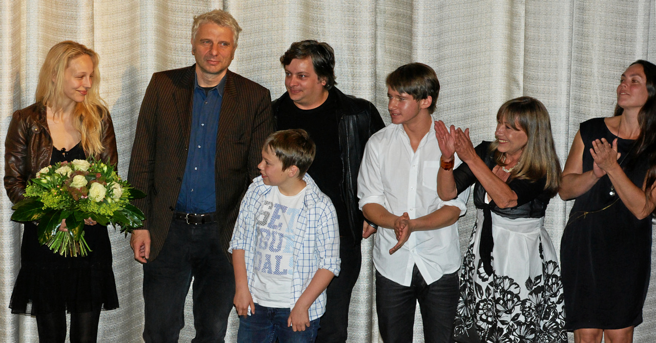 German actors Petra Schmidt-Schaller, Udo Wachtveitl, Andreas Warmbrunn, Rüdiger Klink, Thimo Meitner, Ruth Wohlschlegel, and Kathrin Freundner presenting their TV Movie Das geteilte Glück at Munich Film Festival 2010.